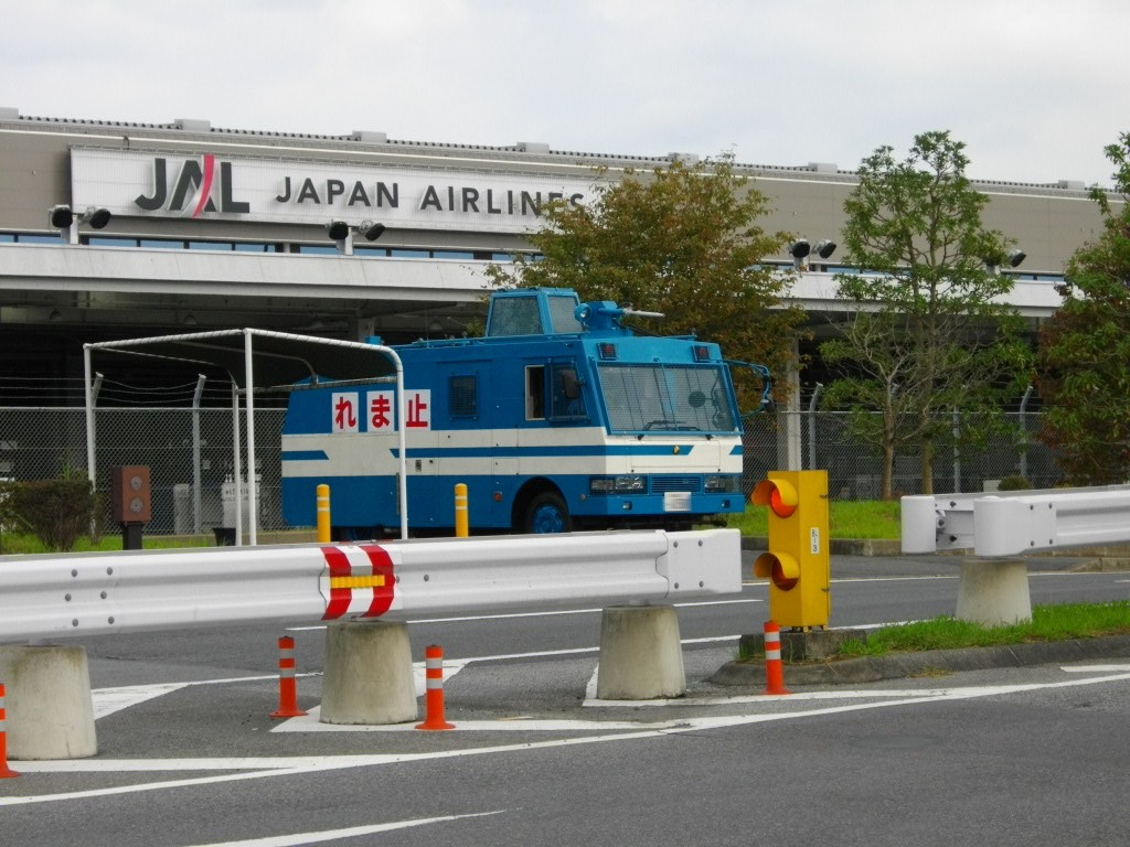 Police automobile around Narita International Airport